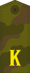 Rank insignia of the Russian federation’s armed forces, here "Kursant " (OR1) – shoulder strap field uniform (1994 – 2010).